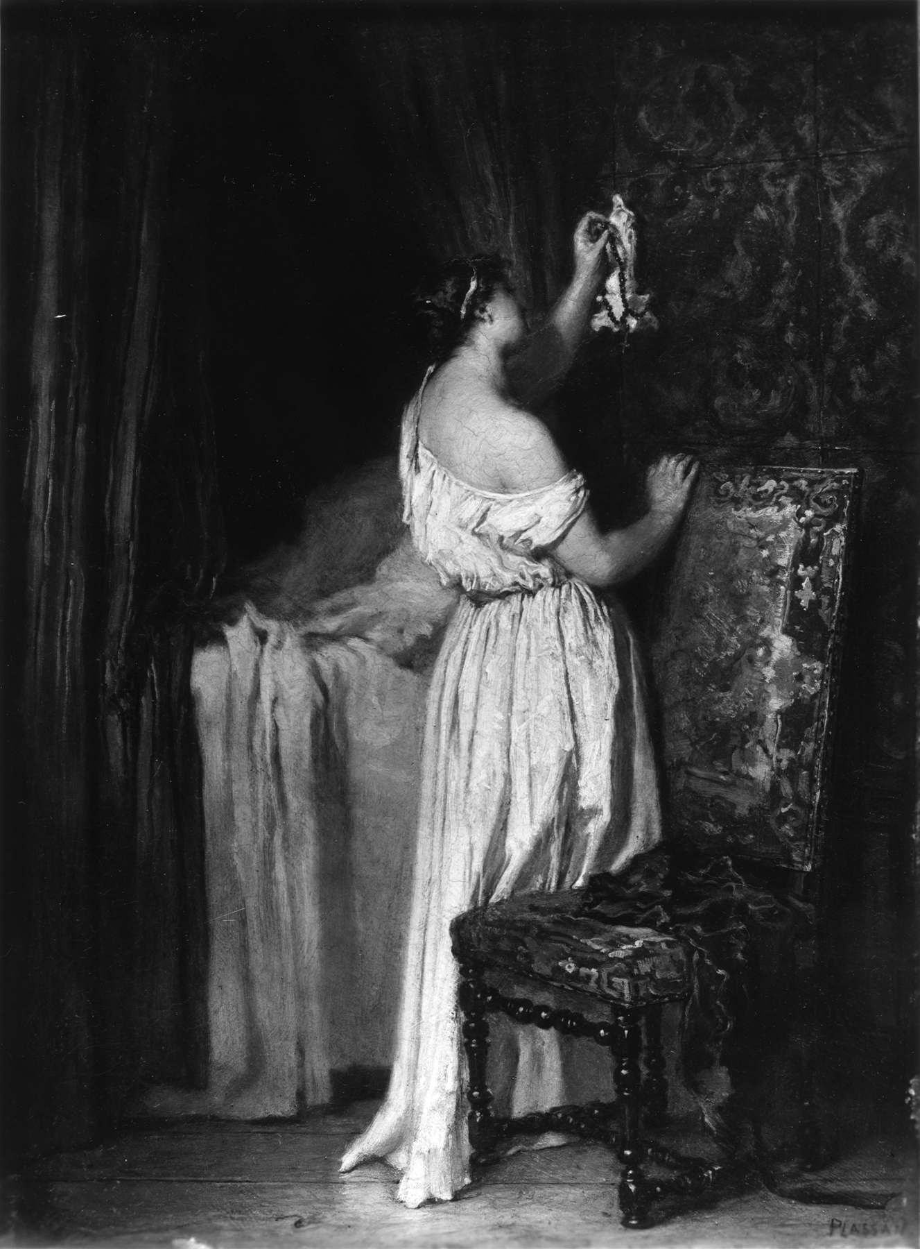 A woman, wearing a nightgown with her shoulder exposed, places a strand of rosary beads on a devotional image mounted on the wall beside her bed. In this instance Plassan suggests a late 17th-century interior, showing a high-backed chair upholstered in needlepoint and a Spanish embossed leather wall-covering.